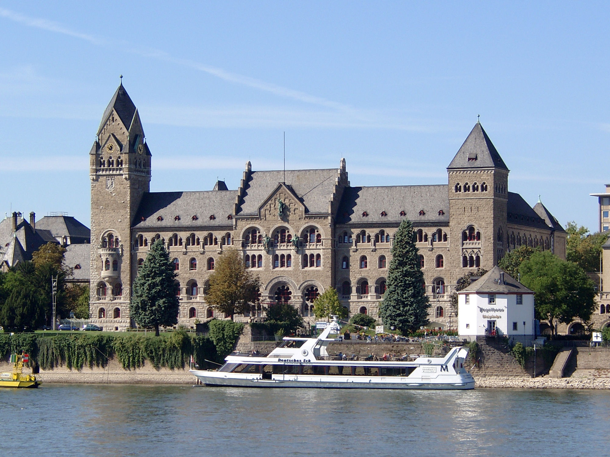 Former prussian gouvernment building of the Rhine Province in Koblenz